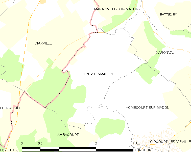 Map of French municipality Pont-sur-Madon